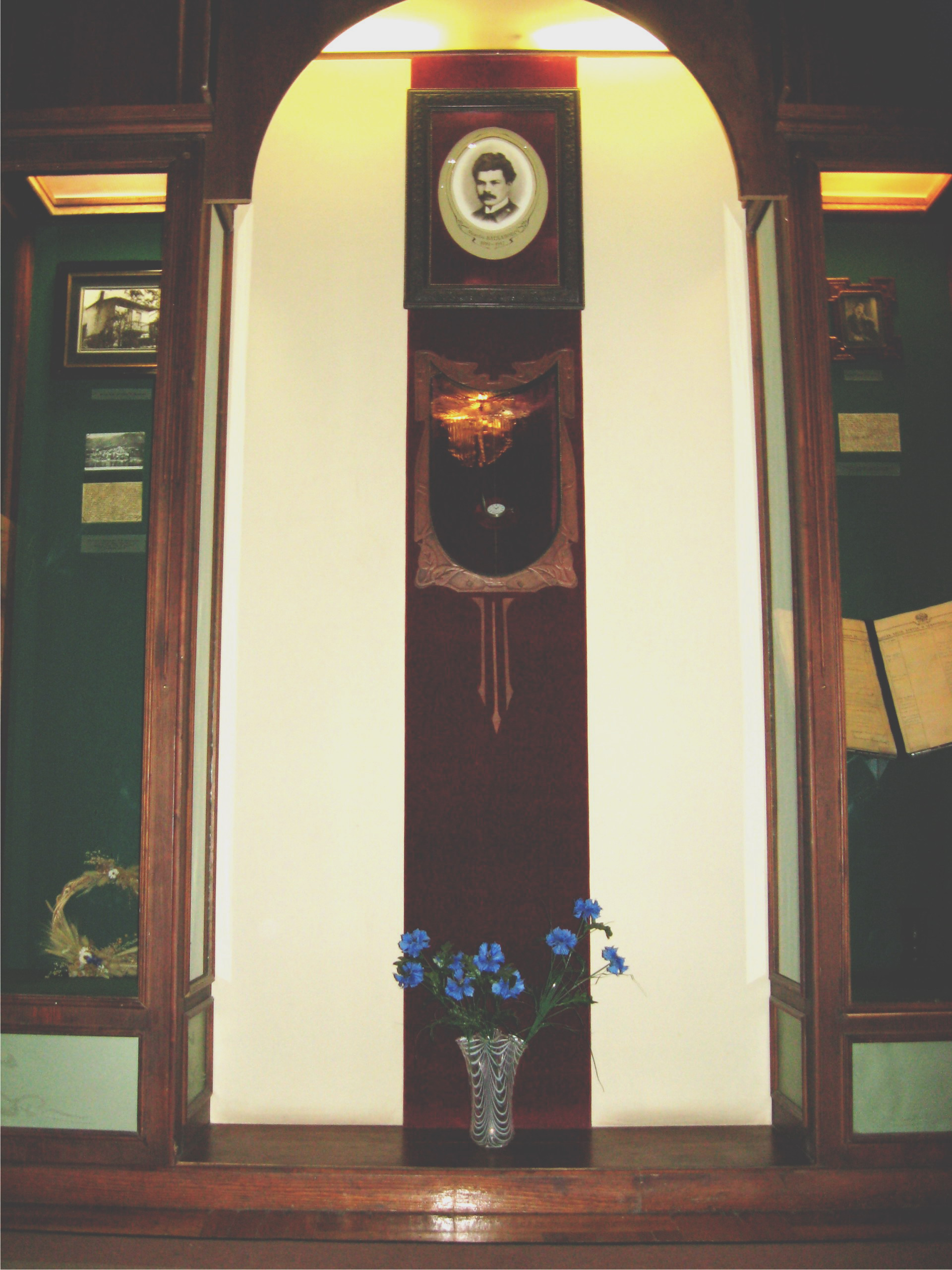 The clock that counted out the last minutes of Bahdanovič's life. Maksim Bahdanovič Museum, Minsk